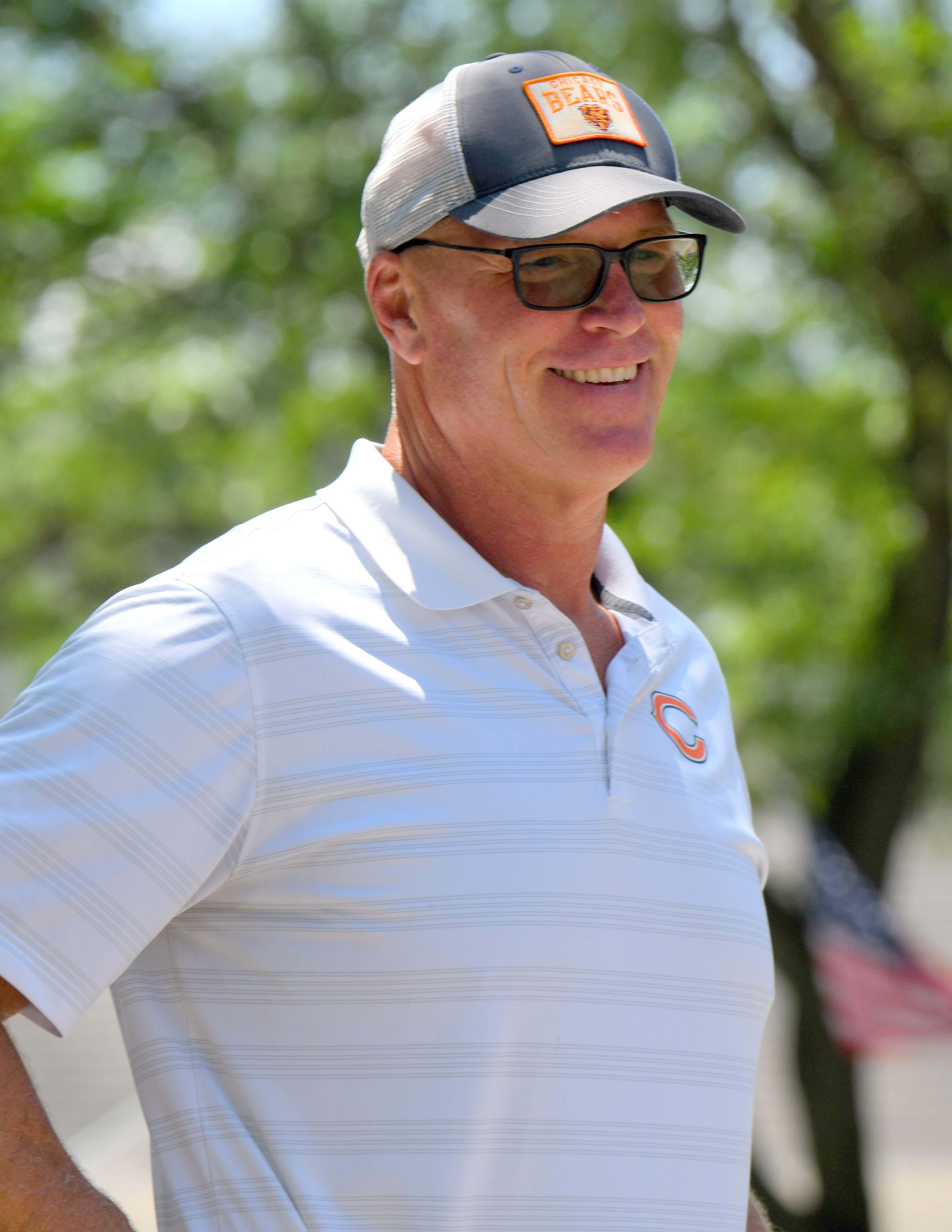 One of the most energetic and exciting voices of the National Football League, Jeff Joniak entered his 17th season behind the microphone as the play-by-play announcer of the Chicago Bears in 2017. Jeff’s passion for the game and for the Bears is linked to a 28-year association with Chicago sports fans. Jeff has hosted the Chicago Bears game day broadcasts since 1997, serves as WBBM Newsradio 780 and 105.9 FM′s Director of Sports Operations while maintaining his afternoon drive-time sports anchor shifts. Additionally, Jeff hosts “The Bears Coaches” radio show on WBBM Newsradio 780 and 105.9FM with Bears head coach Matt Nagy each Monday night during the season. On game days, Joniak and Bears analyst Tom Thayer co-host Bears produced television shows, “Bears Game Day Live” and “Bears Game Night Live.” During the season, Jeff pens his weekly “Keys to the Game” on Jeff and the Bears Radio staff earned 2011, 2009, and 2007 Peter Lisagor Awards, multiple Associated Press “Best Sports Reporting” awards for “Joniak’s Journal” heard in the WBBM Bears radio pre-game show including in 2013 and in 2006 for their coverage of Super Bowl XLI. Jeff earned the Silver Dome Award for “Best Play-by-Play” in 2006, and 2007, 2009, and 2013 regional RTNDA Edward R. Murrow Awards for “Joniak’s Journal”. He also has earned Chicago Midwest television Emmy Awards in 2009 and 2012 for his work on the Bears television shows.